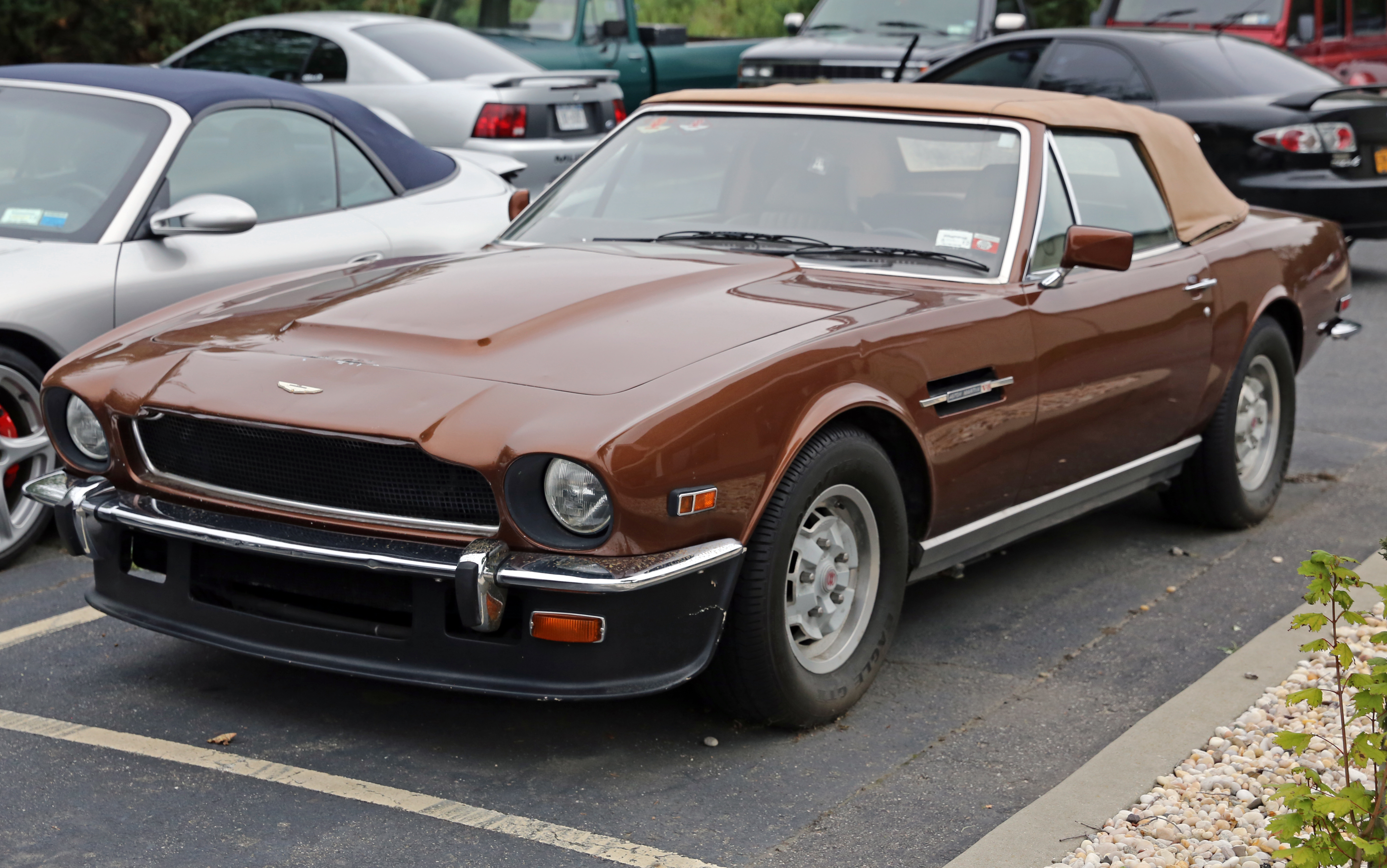 A 1979 Aston Martin V8 Volante Series 1 (equivalent to a Series 4 Saloon). This car is unusual in being a very early US-spec model, still with the smaller bumpers, and also by being fitted with a five-speed manual transmission. This car sold at the Kensington auction in Southampton, NY, in June 2005. Since then it's apparently seen some hard times, with a cracked front skirt and numerous dents across the bodywork. The interior was shabby in 2005 and in worse shape in 2013 - but it's at a mechanic, so perhaps things are looking up for this lovely motor?